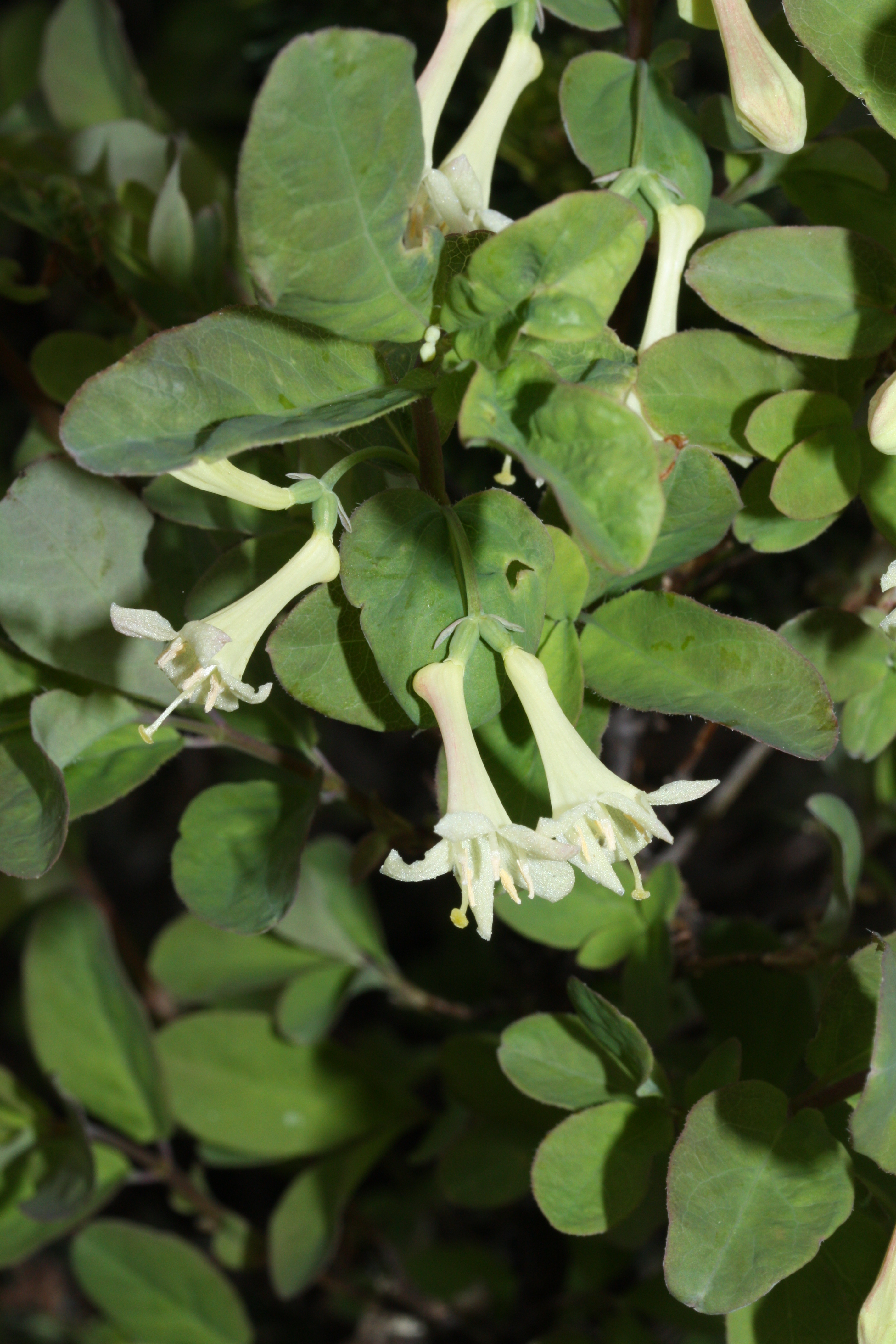 Utah Honeysuckle, Rocky Mountain Honeysuckle